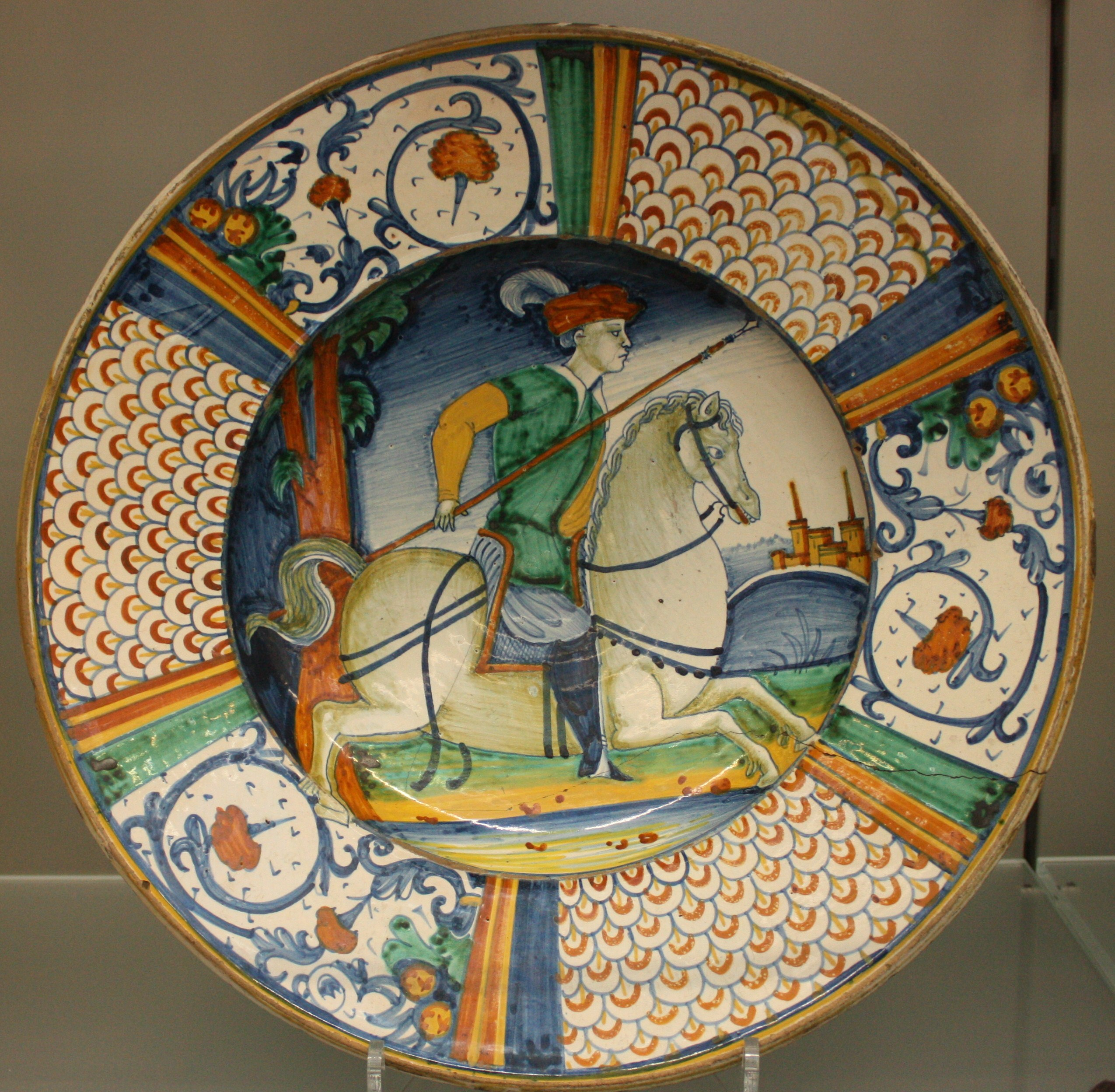 Dish with man on horseback Italy, Deruta, 1520-50 The dish shows almost the entire range of colours used by maiolica painters. Among the most popular designs on large Deruta dishes of this kind are single figures of horsemen, either Western lancers, such as this one, or, Turkish ones. This type of plate may have formed a pair with an Ottoman rider proceeding in the opposite direction. Collection ID: 2595-1856A This photo was taken as part of Britain Loves Wikipedia in February 2010 by Valerie McGlinchey.